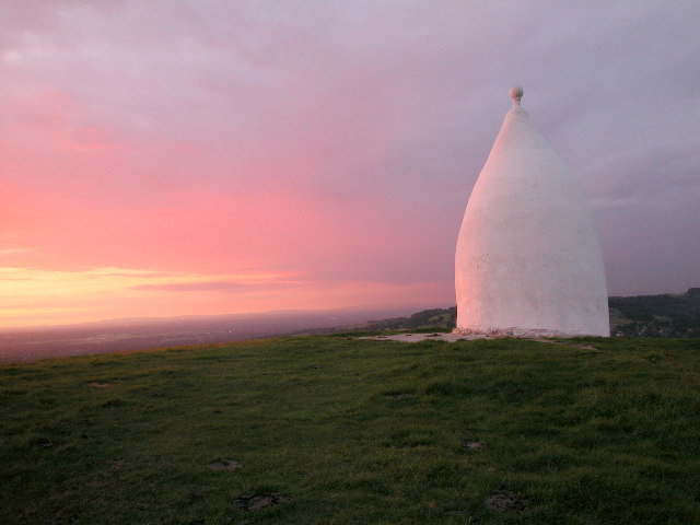 White Nancy. White Nancy, Kerridge Hill at sunset